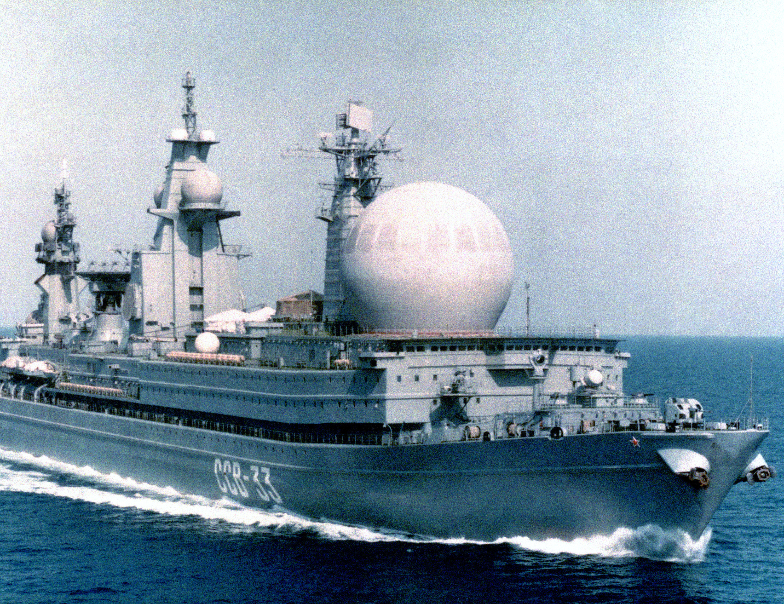 A starboard bow view of the Soviet naval auxiliary Kapusta Class Nuclear Powered Missile Range Ship SSV-33 underway.